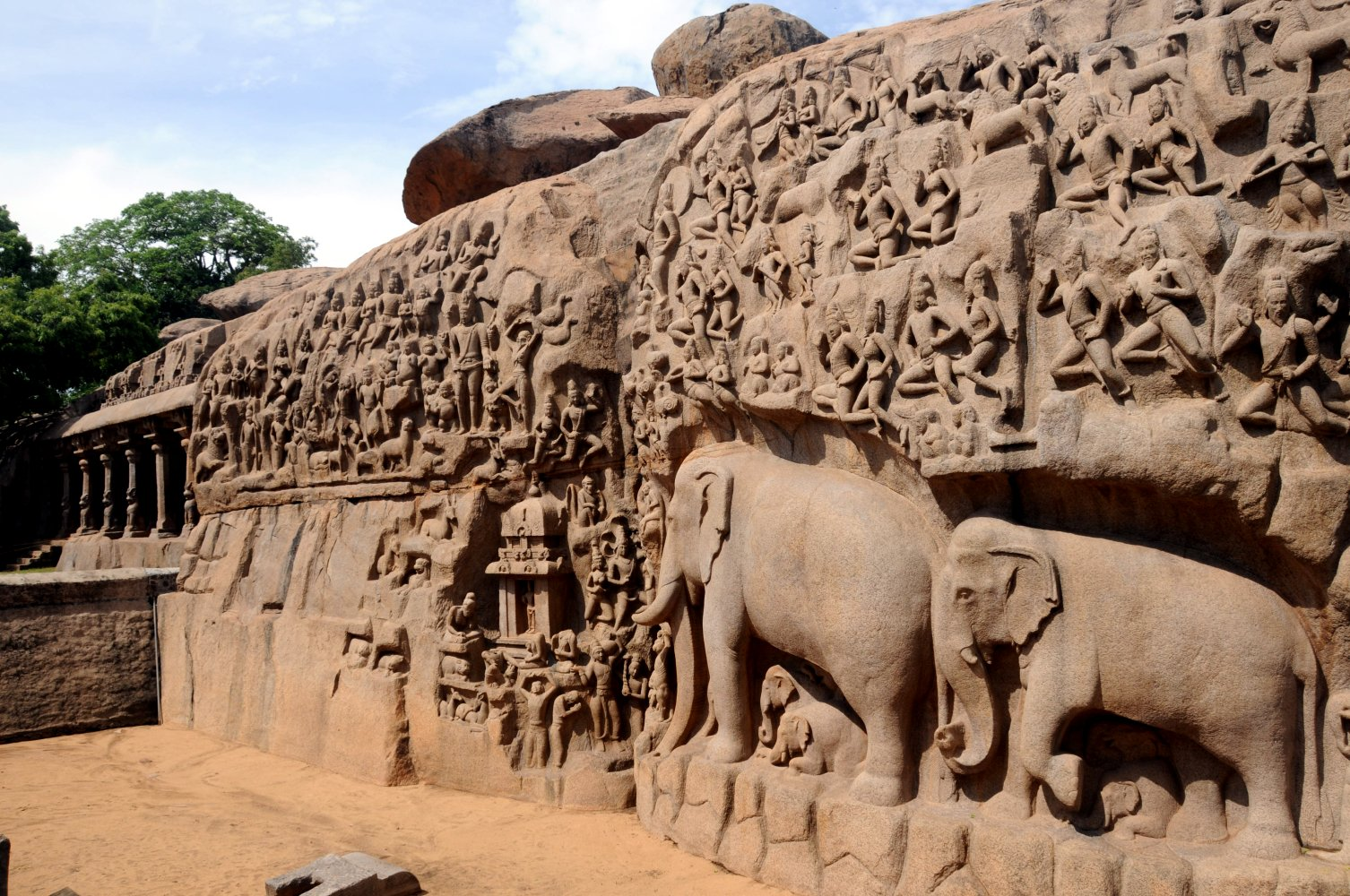 Rock carvings at Mamallapuram, Tamil Nadu, India